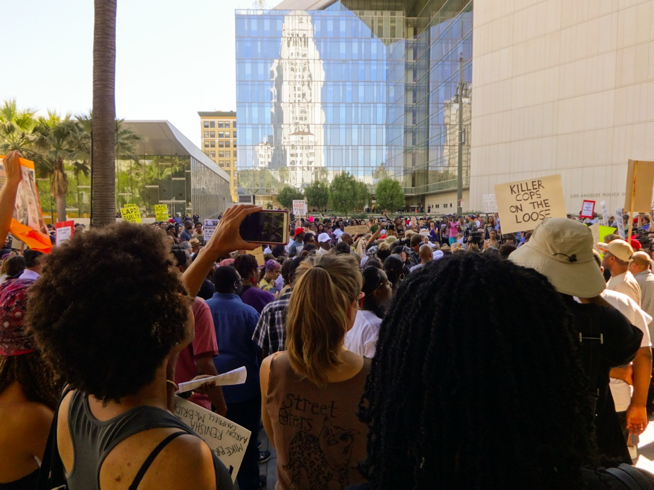 Protesters outside Los Angeles Police Department headquarters during a protest over the deaths of Ezell Ford and Michael Brown on August 17, 2014